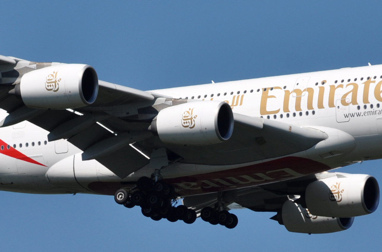 Four GP4000 Engines power the A380